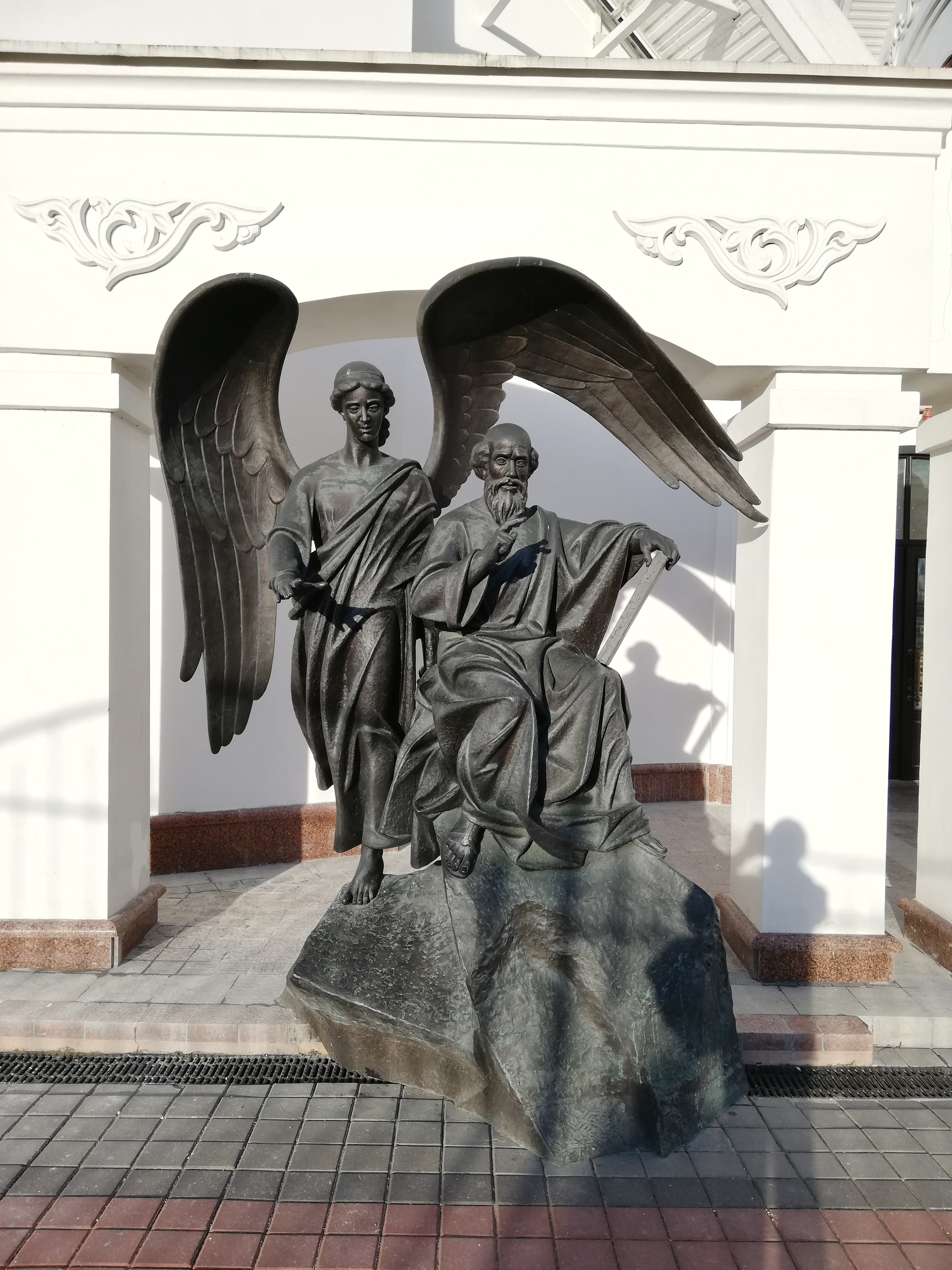 Sculpture near church of Kiryla Turauski